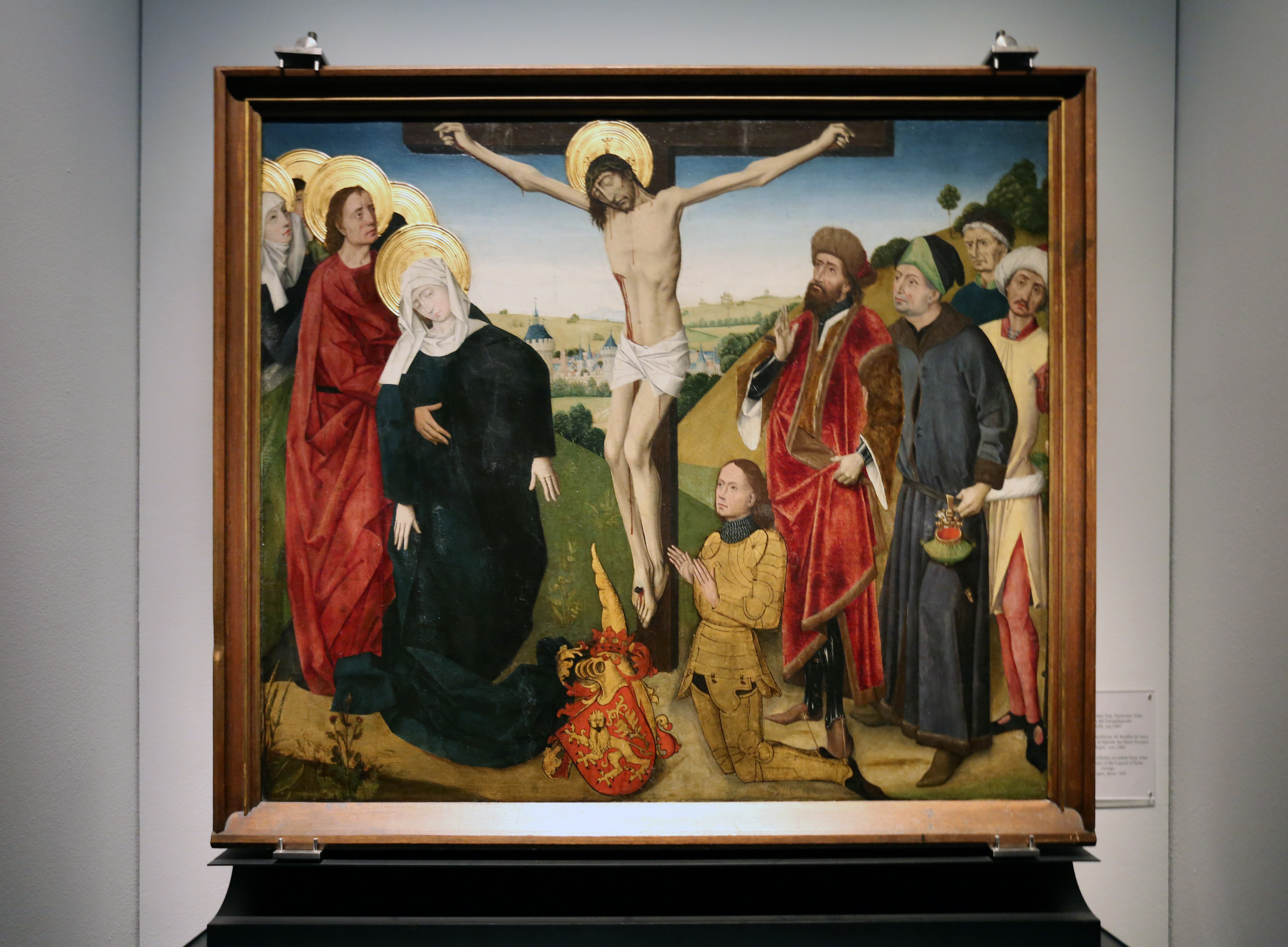 Altarpiece of crucifixion by “Meister der Georgslegende”, Cologne 1460 AD. Exhibotion Cathedral's treasury in Aachen, Germany